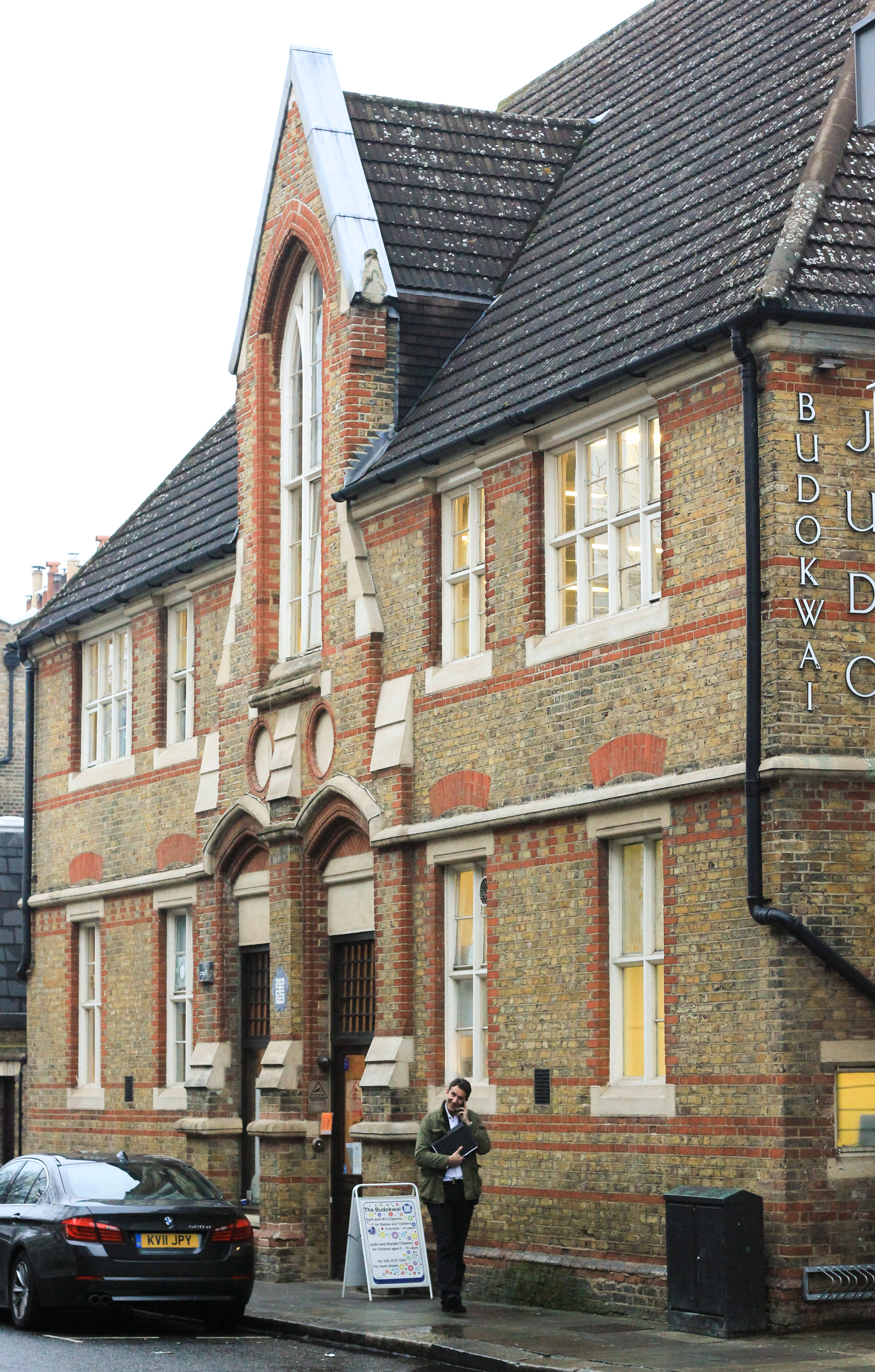 The budokwai martial arts dojo, 4 Gilston Road, South Kensington, London, SW10 9SL. The oldest Judo dojo club in Europe.